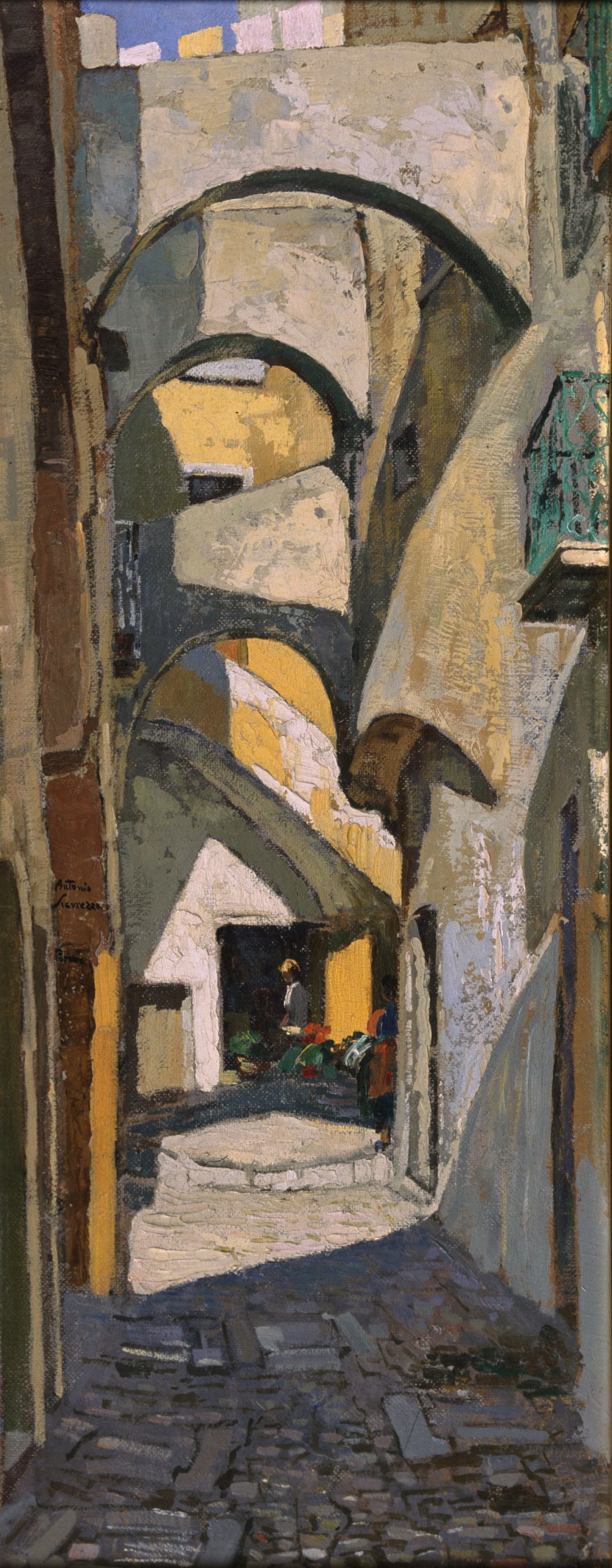 Alley in Formia